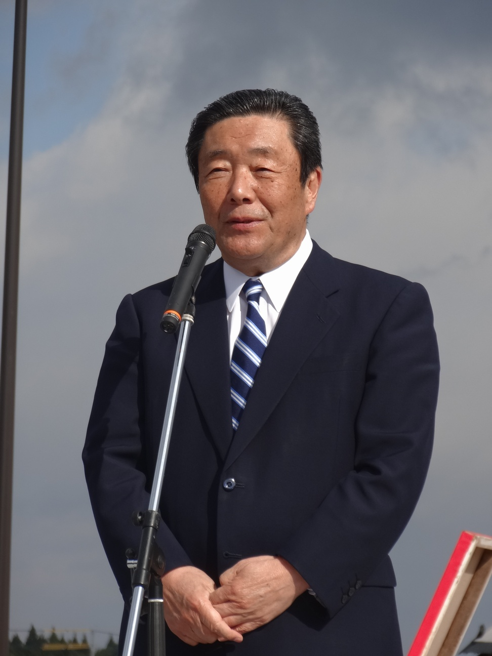 Hiroshi Moriyama on December, 2014)